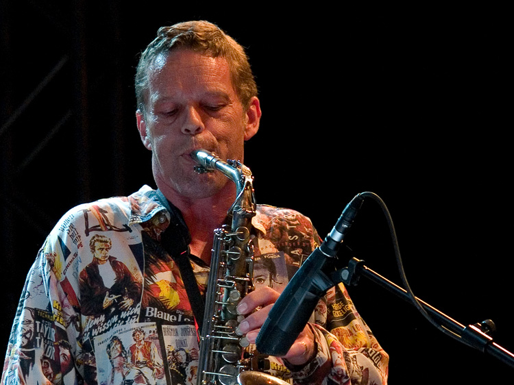 Paul van Kemenade (Eckard Koltermann Border Hopping) at moers festival 2007